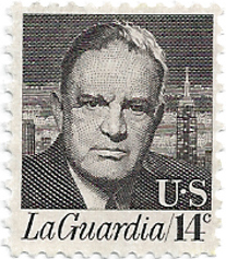 14¢ Fiorello LaGuardia U.S. postage stamp - 145,700,000 issued on April 22, 1964 New York, NY - Pictorial of Congressman and 99th Mayor of New York Fiorello La Guardia